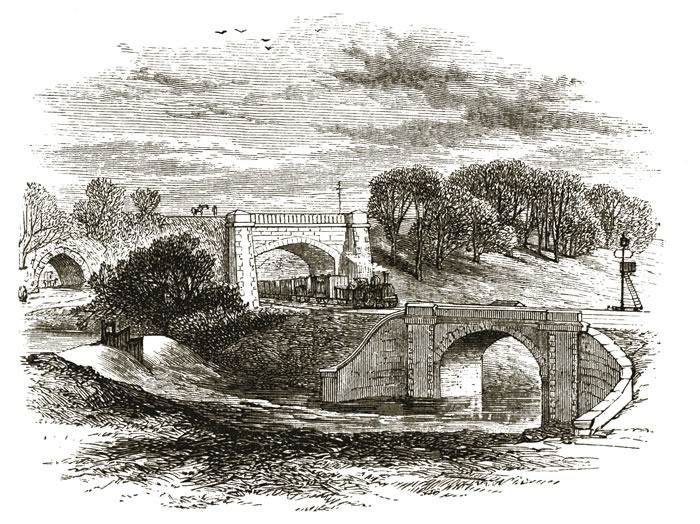 Bullbridge Aqueduct from the east showing the River Amber, the Ambergate to Nottingham Road, the North Midland Railway and the Cromford Canal.